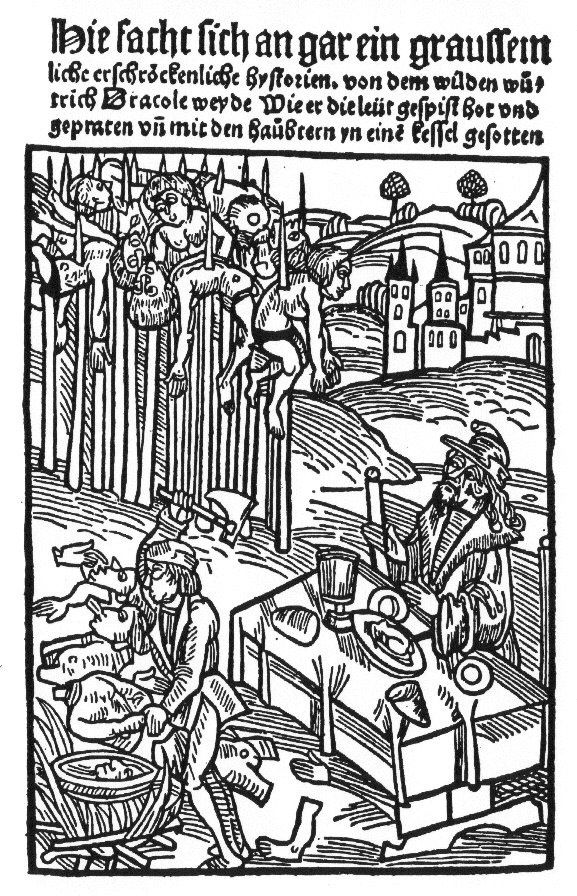 Vlad Drăculea of Wallachia